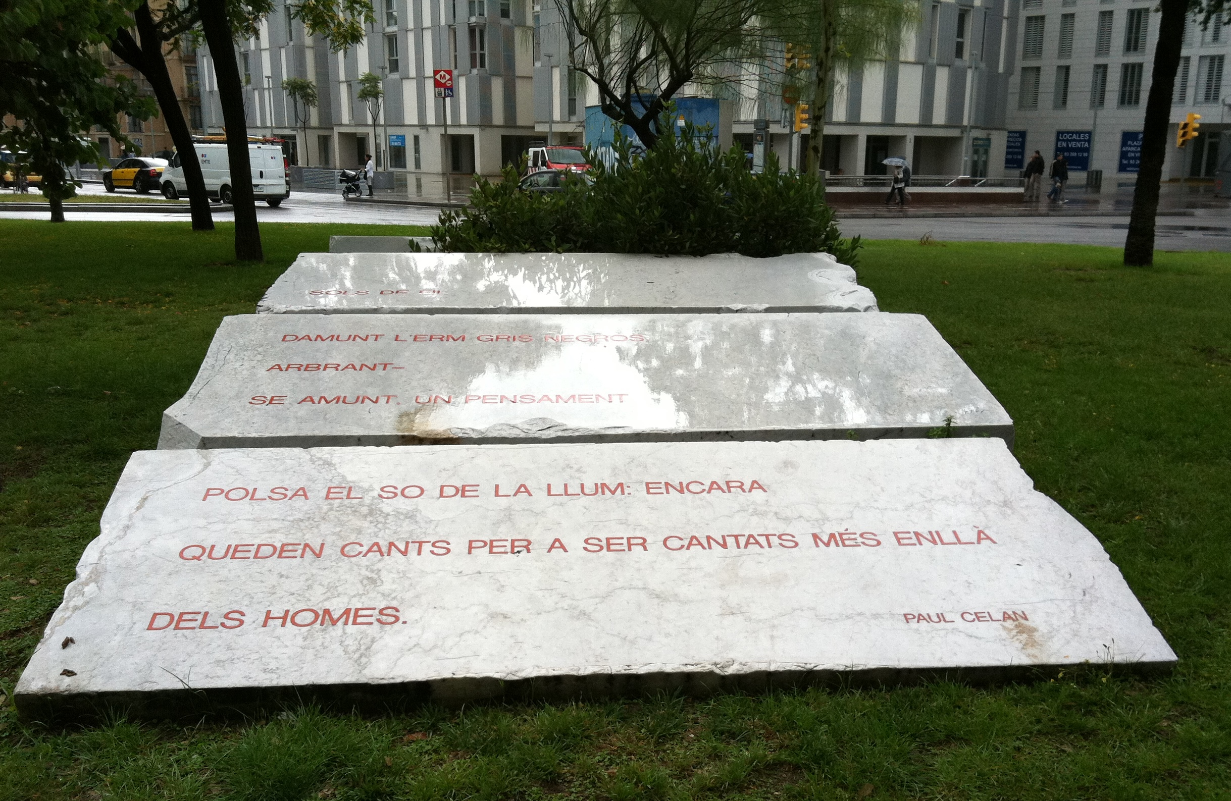 "A Paul Celan. Monument a Josep Moragues" (To Paul Celan. Monument to Josep Moragues, 1999), part of a sculptural installation by Francesc Abad consisting of six wedges of Carrera marble bearing Celan's poem Fadensonnen inscribed in both the German original and the Catalan translation (translated by ??), a laurel bush, two Judas trees (known as "trees of love" in Catalan), and a flagpole with explanatory inscriptions and a poem by Àngel Guimerà. In Barcelona.